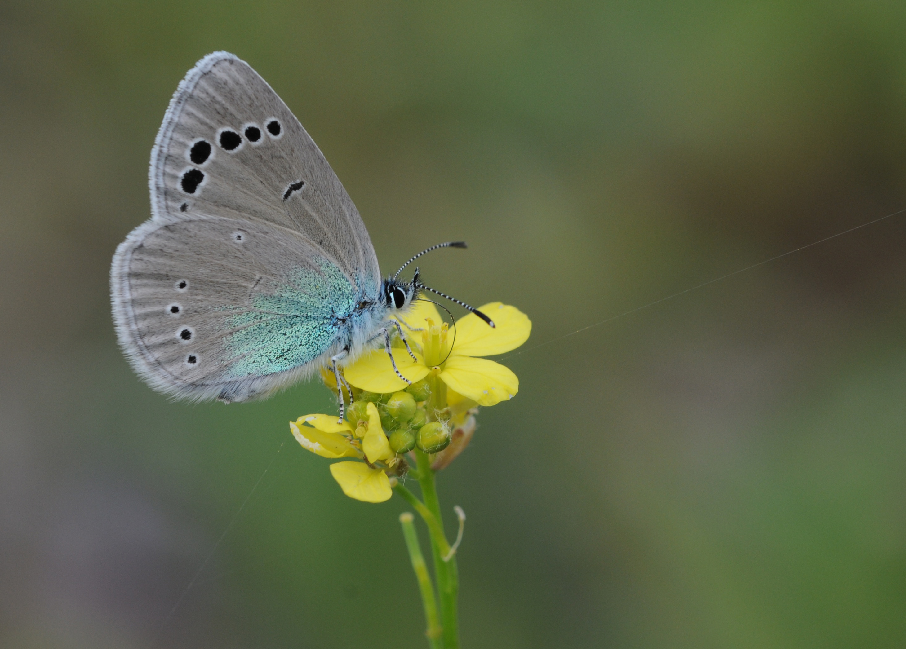 A male specimen of Green-underside Blue butterfly (Glaucopsyche alexis) feeding nectar of flowers of wild mustard (Sinapis arvensis). Adana Turkey.